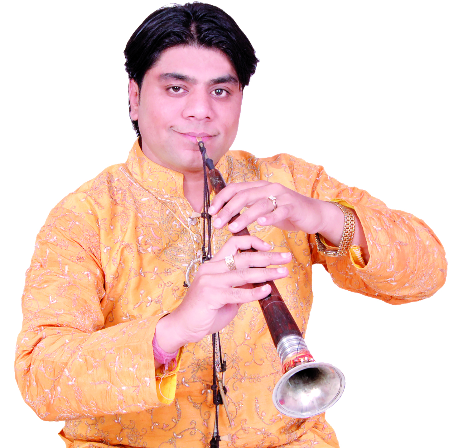 old profile Pic Lokesh Anand